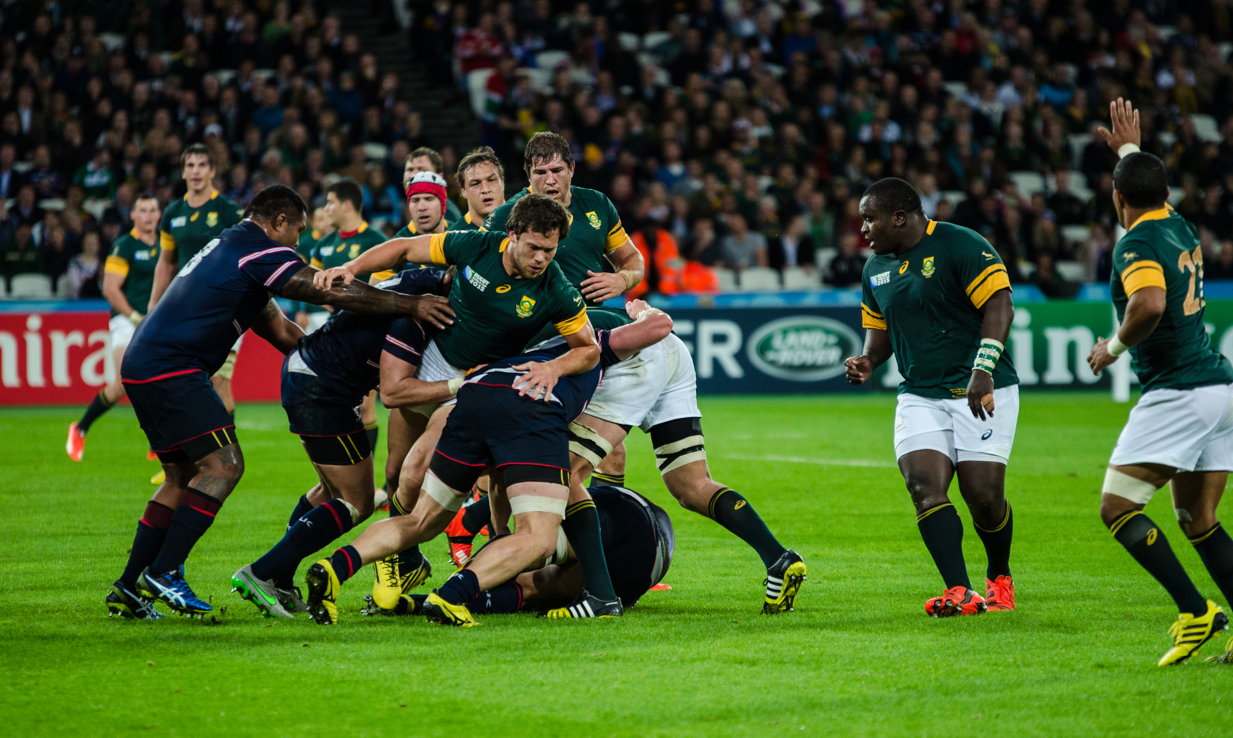 2015 Rugby World Cup game between South Africa and the United States played at the Olympic Stadium in London.